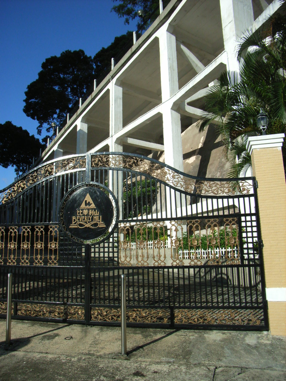 比華利山, Beverly Hill, 6 Broadwood Road, Happy Valley, Hong Kong Author: BEVERLYSHEN